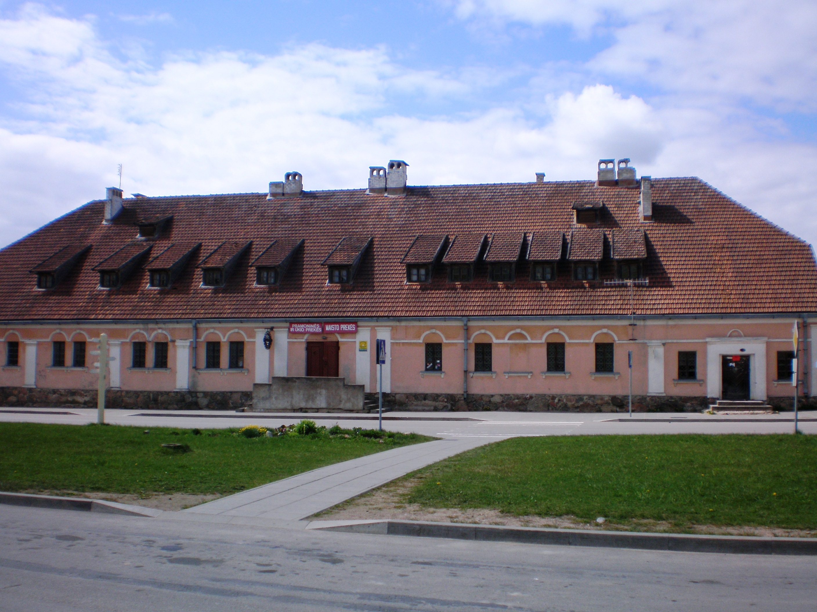 18th century inn in Alanta, Lithuania